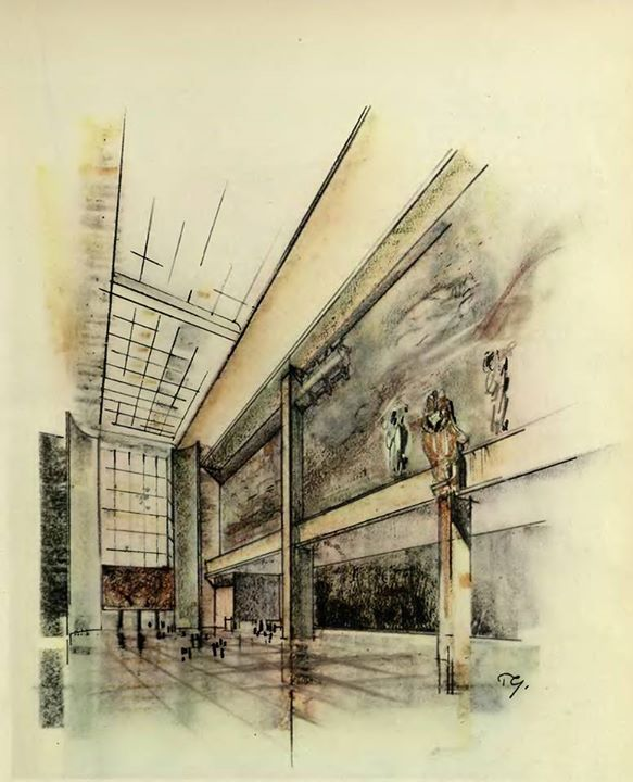 A sketch of planned interior of the departures hall of the Warsaw Main railway station; in the central section a statue of "Polonia" was planned. Original caption: Construction works at Warsaw Main station. View on the interior of the departures hall.